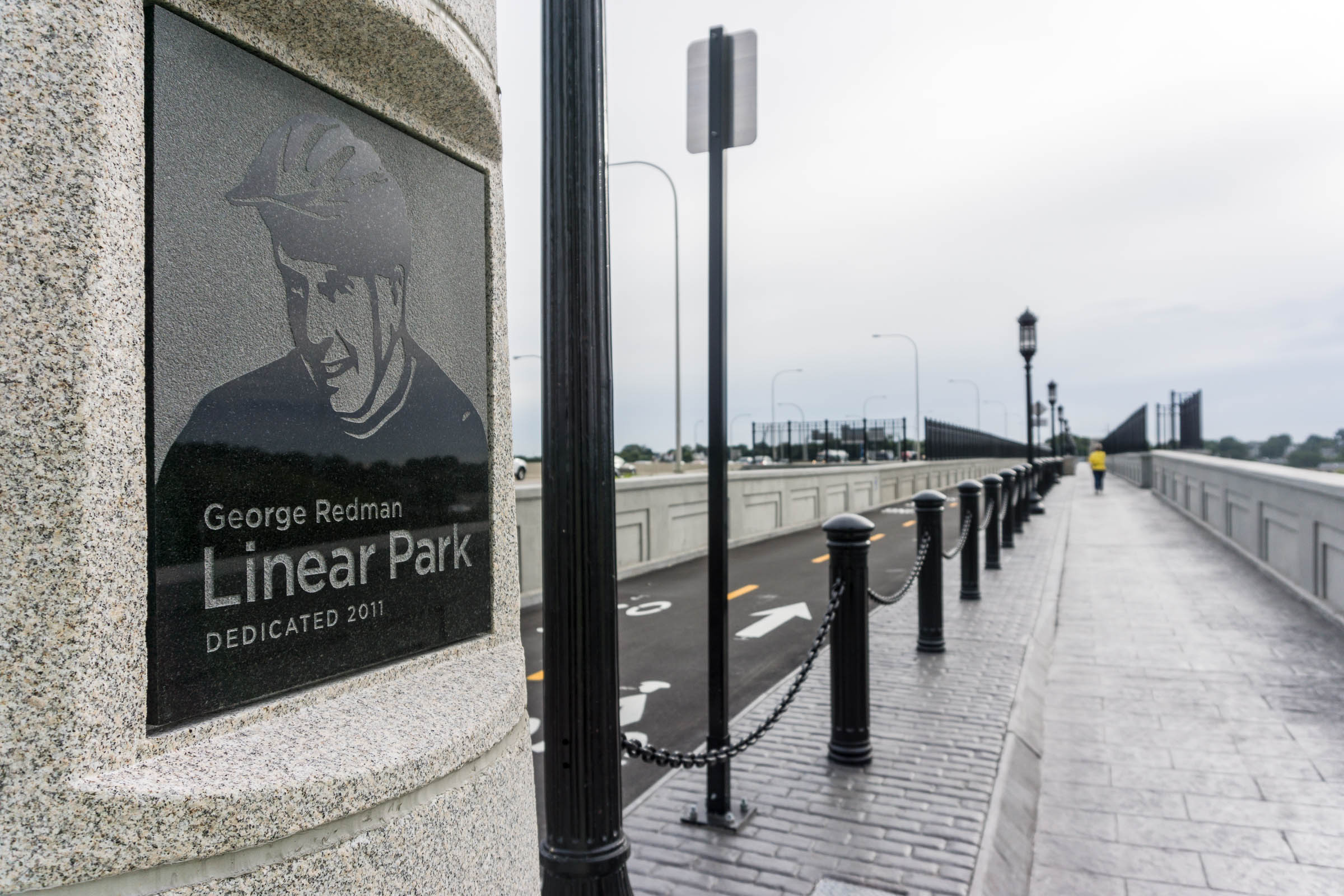 George Redman Linear Park, Providence Rhode Island. Opened September 2015.